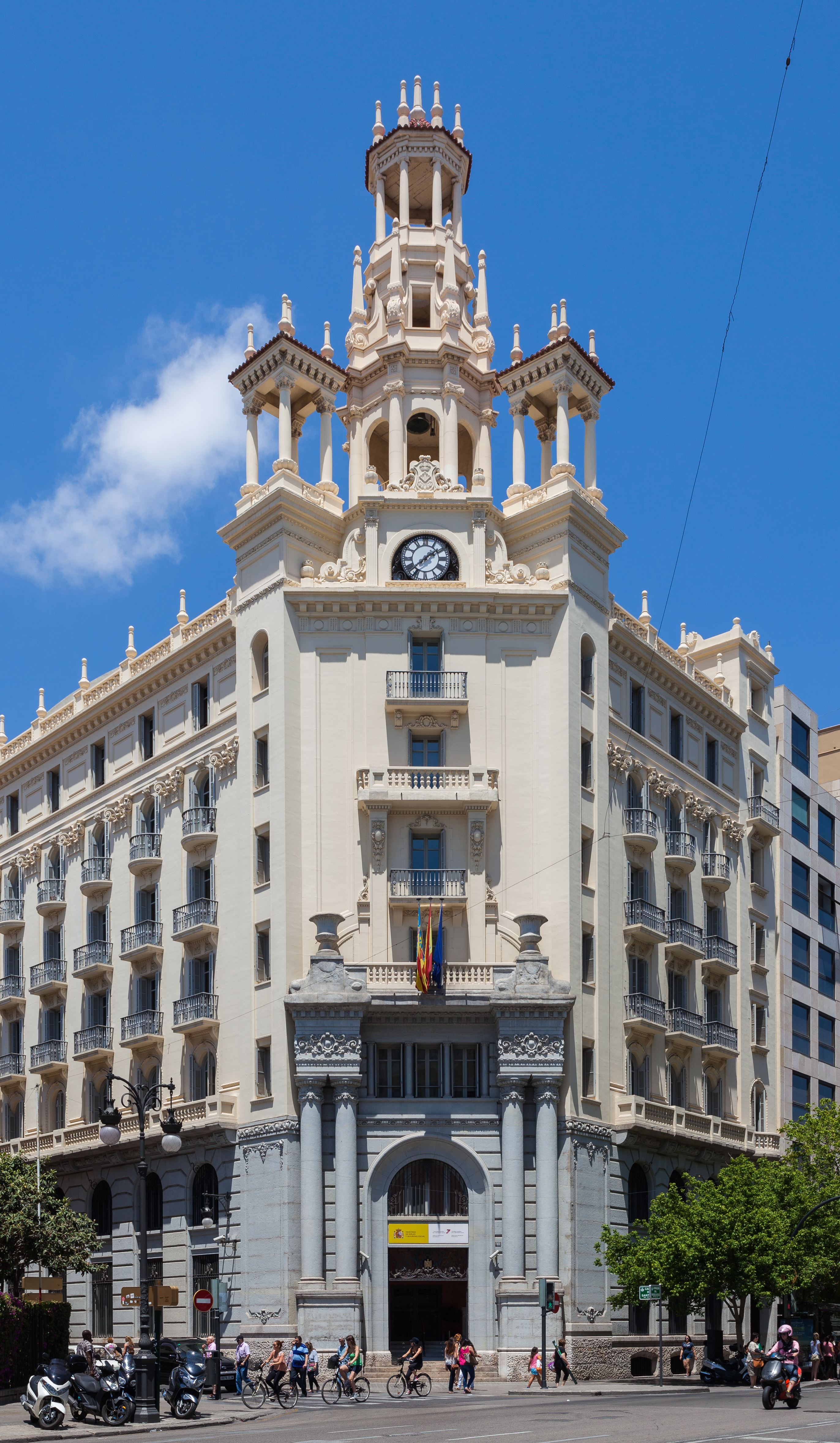 Work and Social Affairs Ministery subsidiary, Valencia, Spain